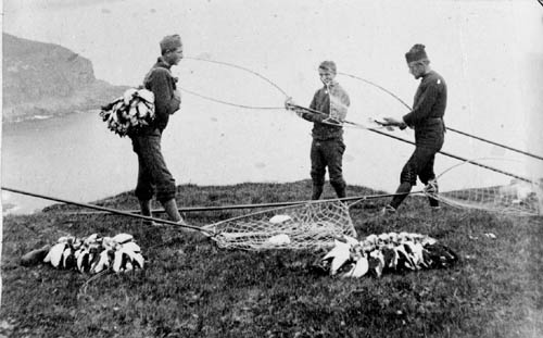 Fowlers in Trongisvágur, Faroe Islands